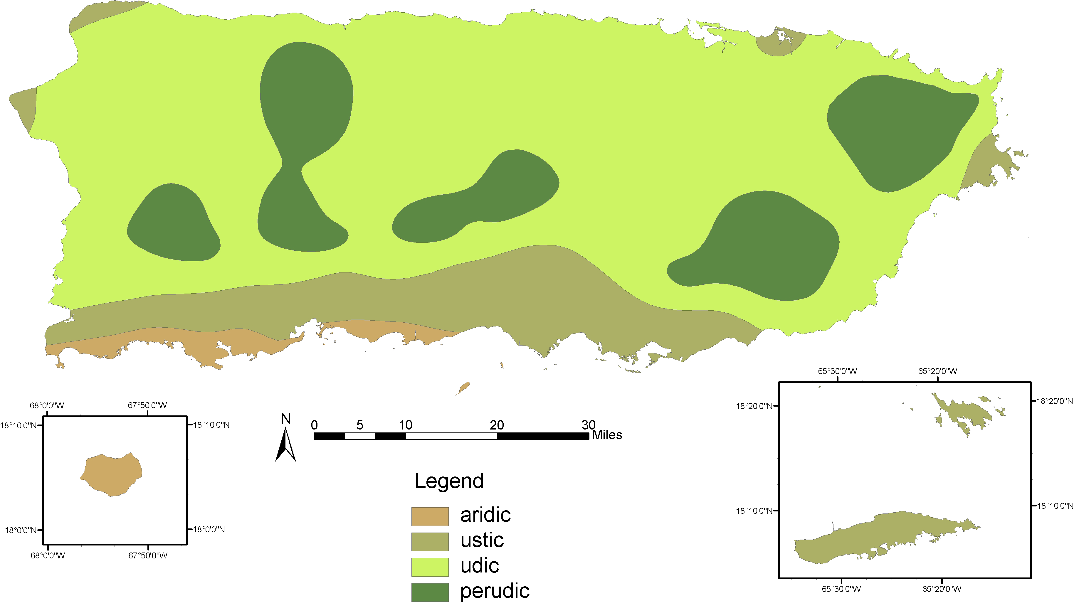 Soil moisture regimes of Puerto Rico as defined by Soil Taxonomy (Lugo-Camacho, 2005).